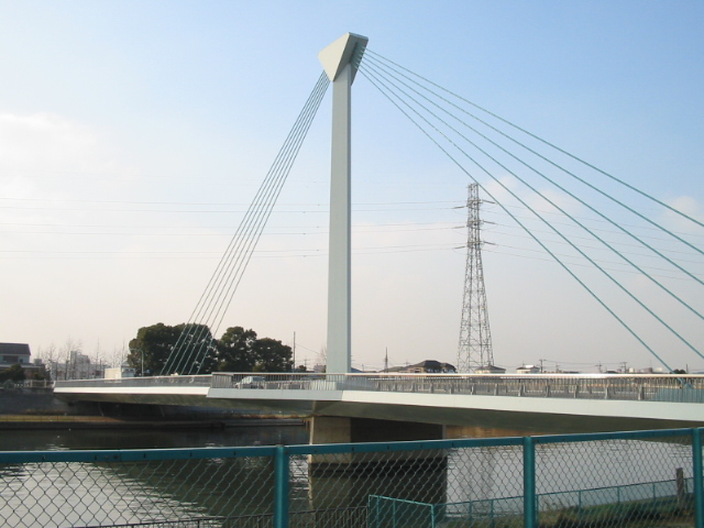 Oosugi-Bashi, Edogawa-ku, Tokyo, Japan